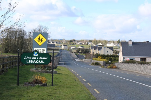 Entering Lisacul from Cloontowart